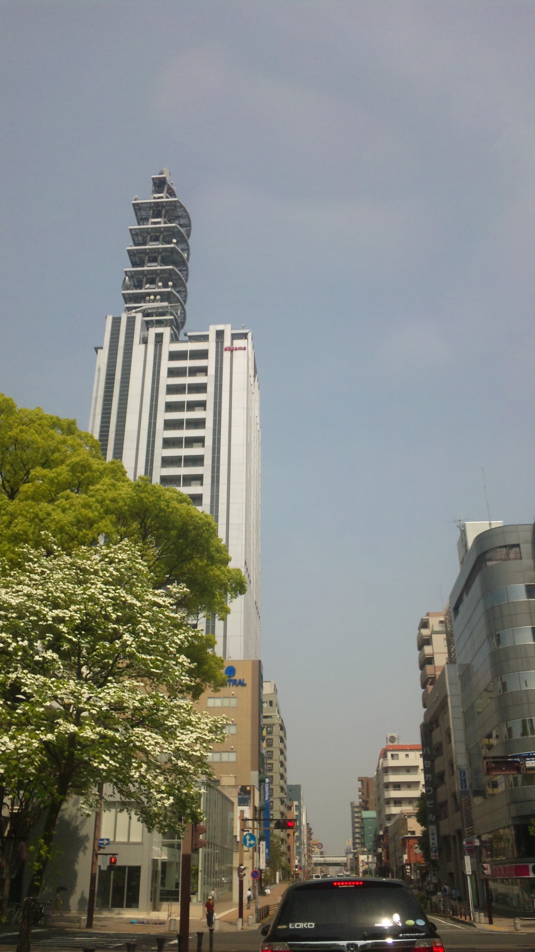 NTT DOCOMO NAGOYA Tower